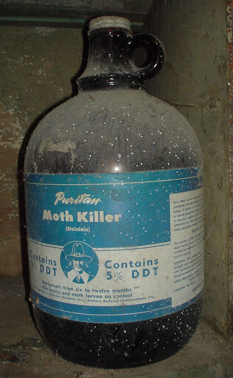 Photo taken by me of an old commercial moth killer containing DDT